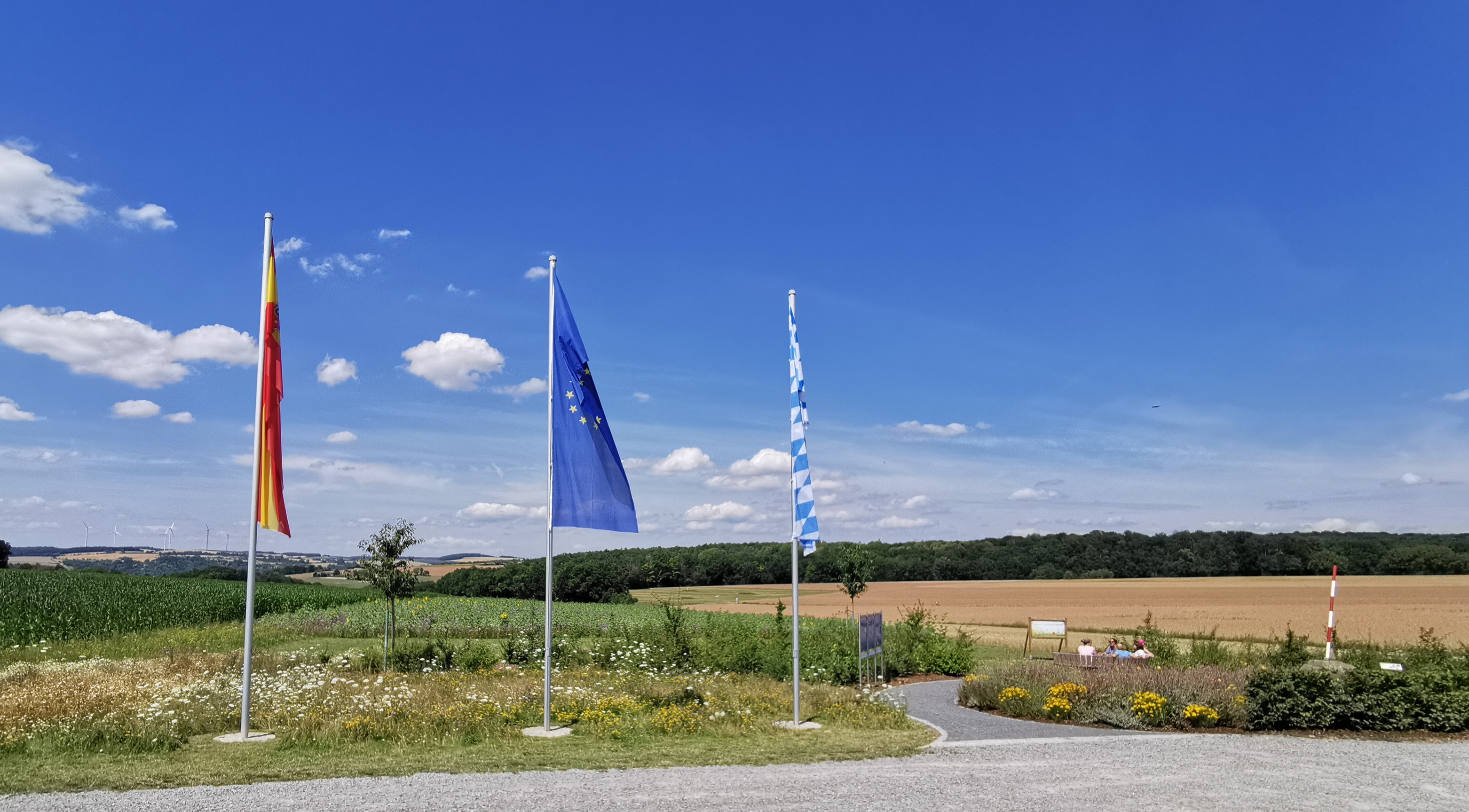 New geodetic center of the European Union since 31 January 2020